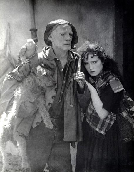 Still from the American film Irish Eyes (1918) with Ward Caulfield and Pauline Starke.